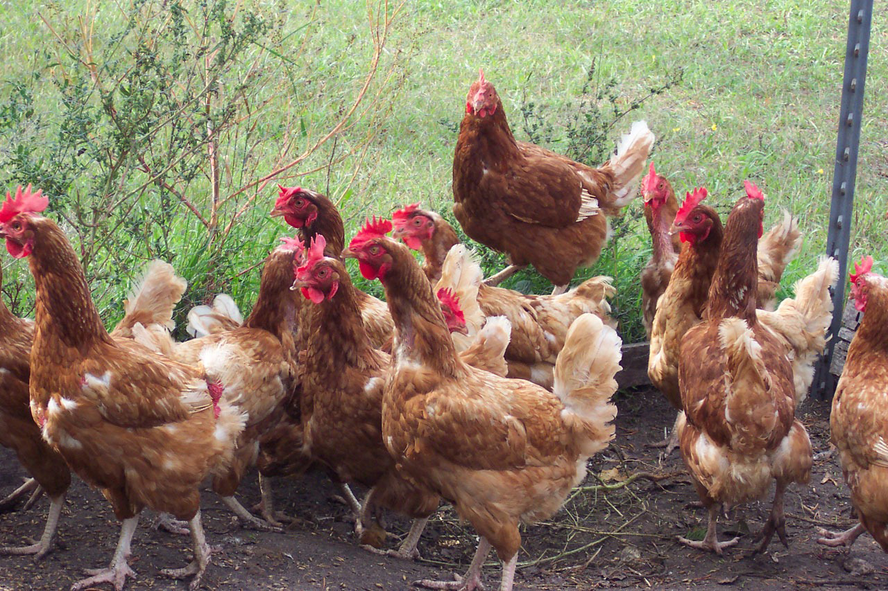 Piràmide d'aliments de l'Empordà